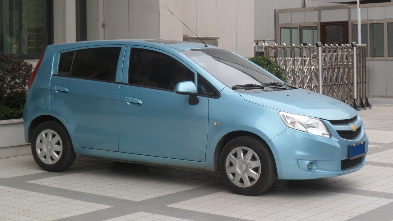 Chevrolet Sail II hatch photographed in Chengdu, Sichuan province, China.